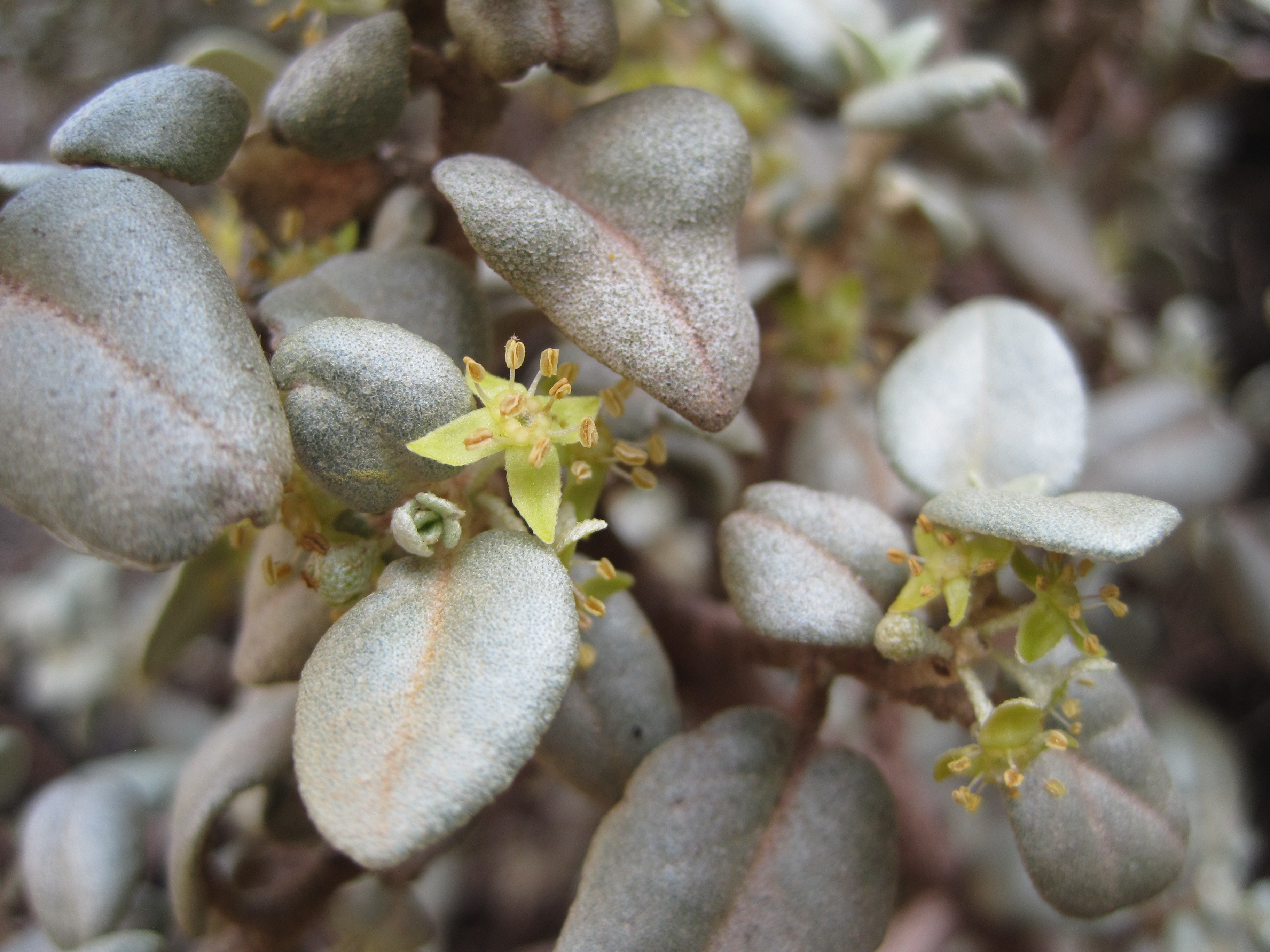 Roundleaf buffaloberry (Shepherdia rotundifolia) blooms in the spring. NPS Photo/Caitlin Ceci